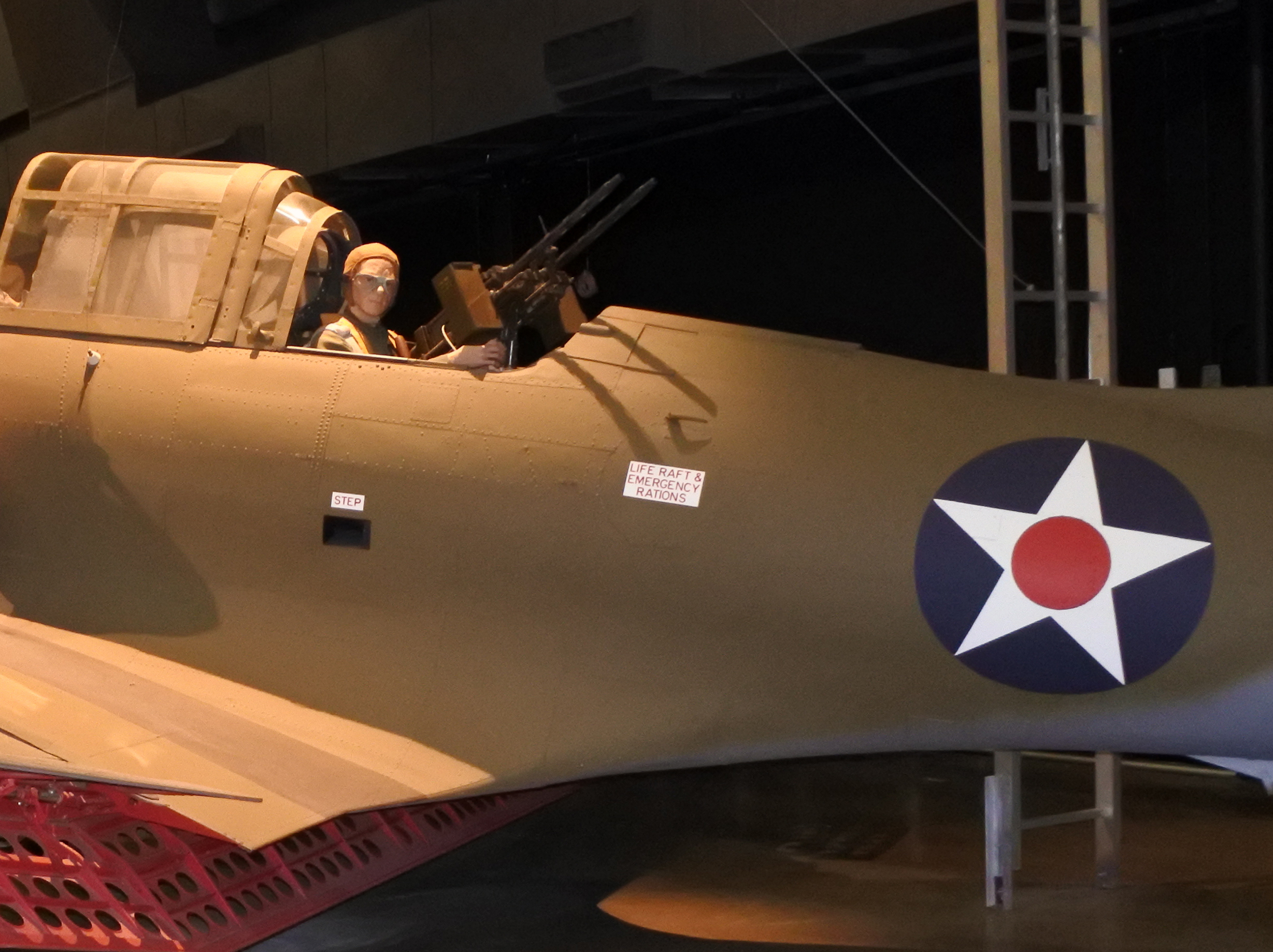 A-24 rear gunner position; the National Museum of the United States Air Force.